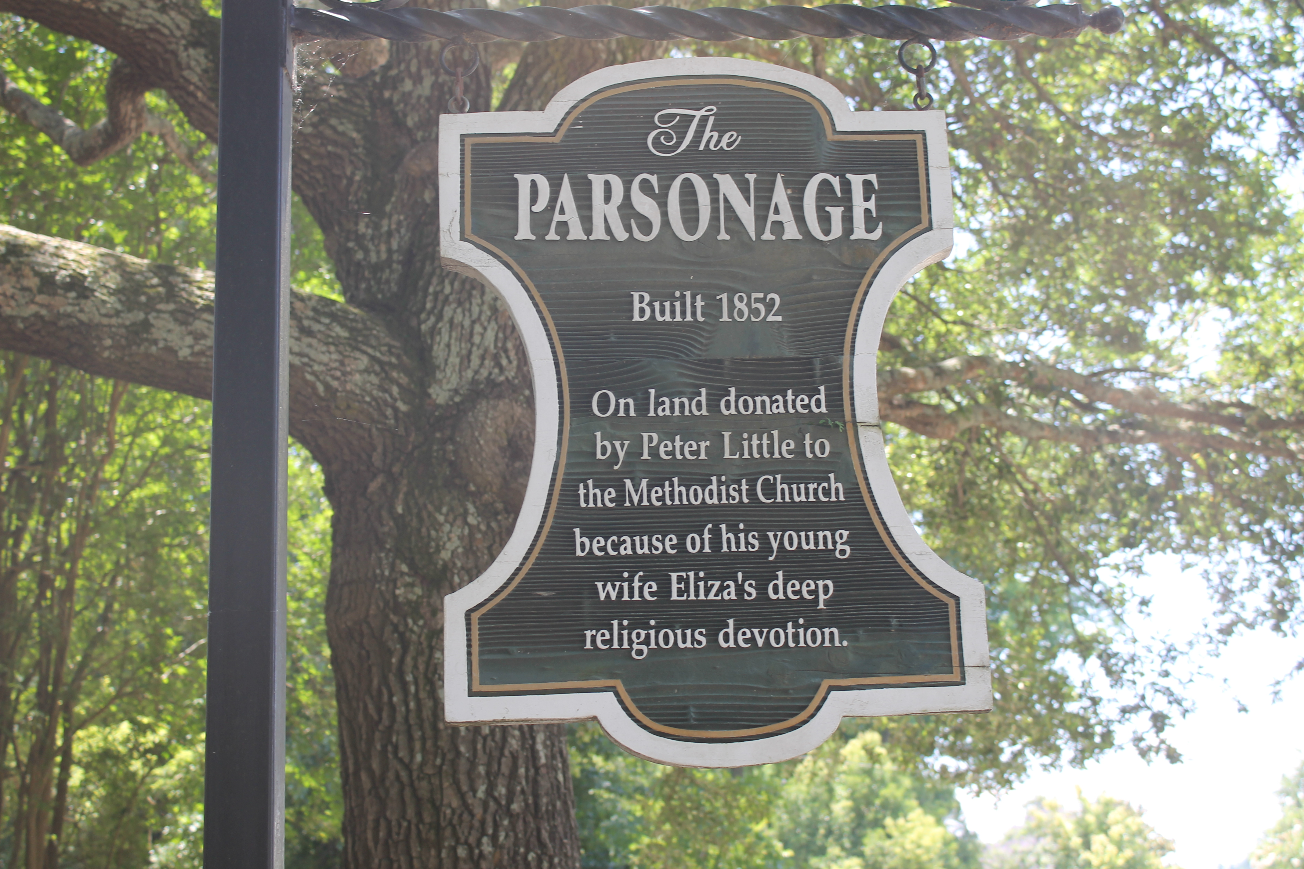 Sign explaining The Parsonage ante-bellum home in Natchez, MS